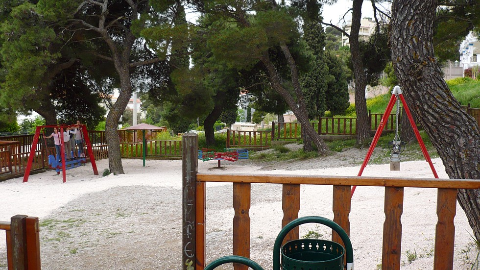 The above picture depicts a playground at Penteli.